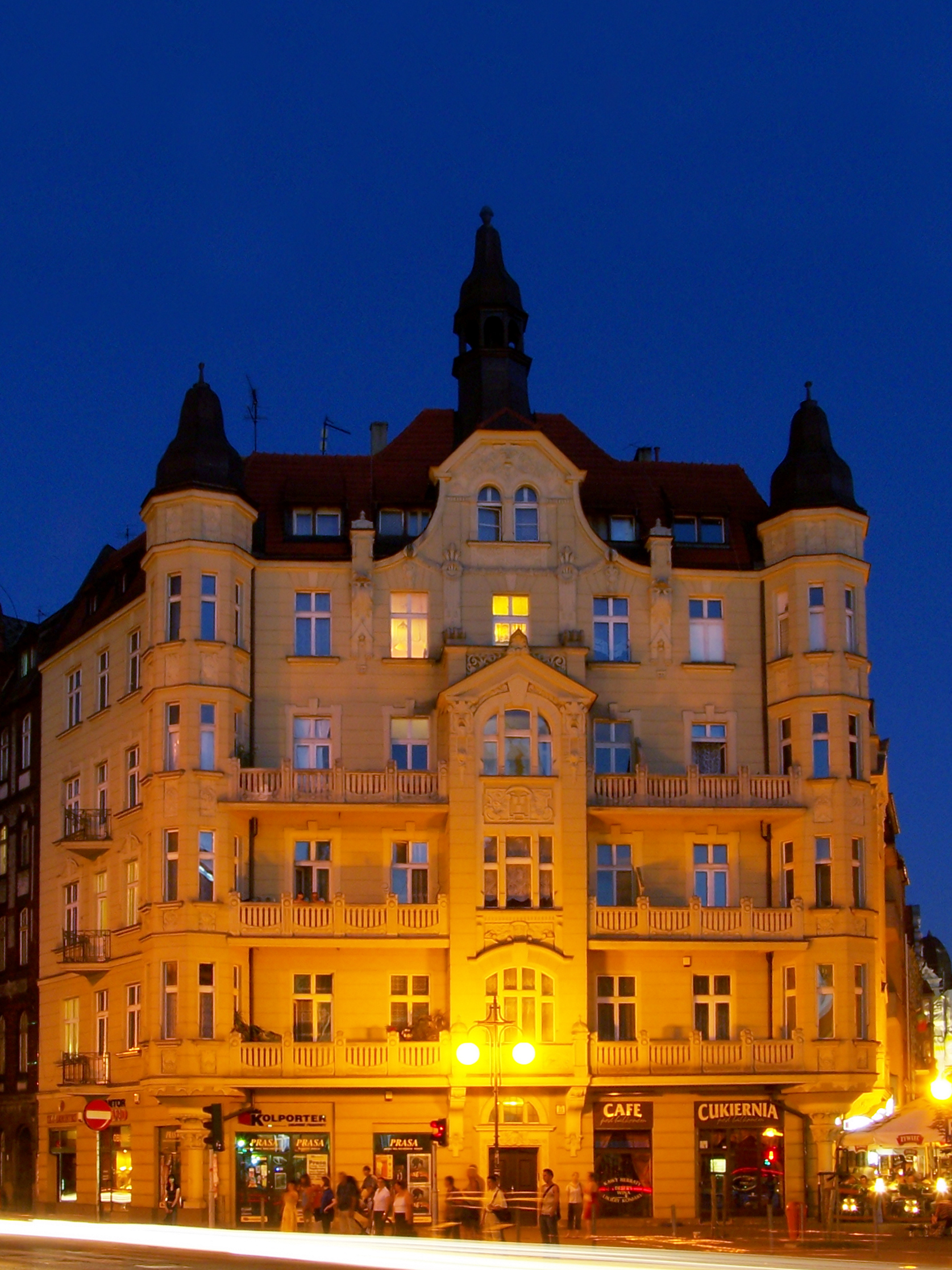 Corner building from 1906 at the ul. Mickiewicza/ul. Stawowa in Katowice by night.